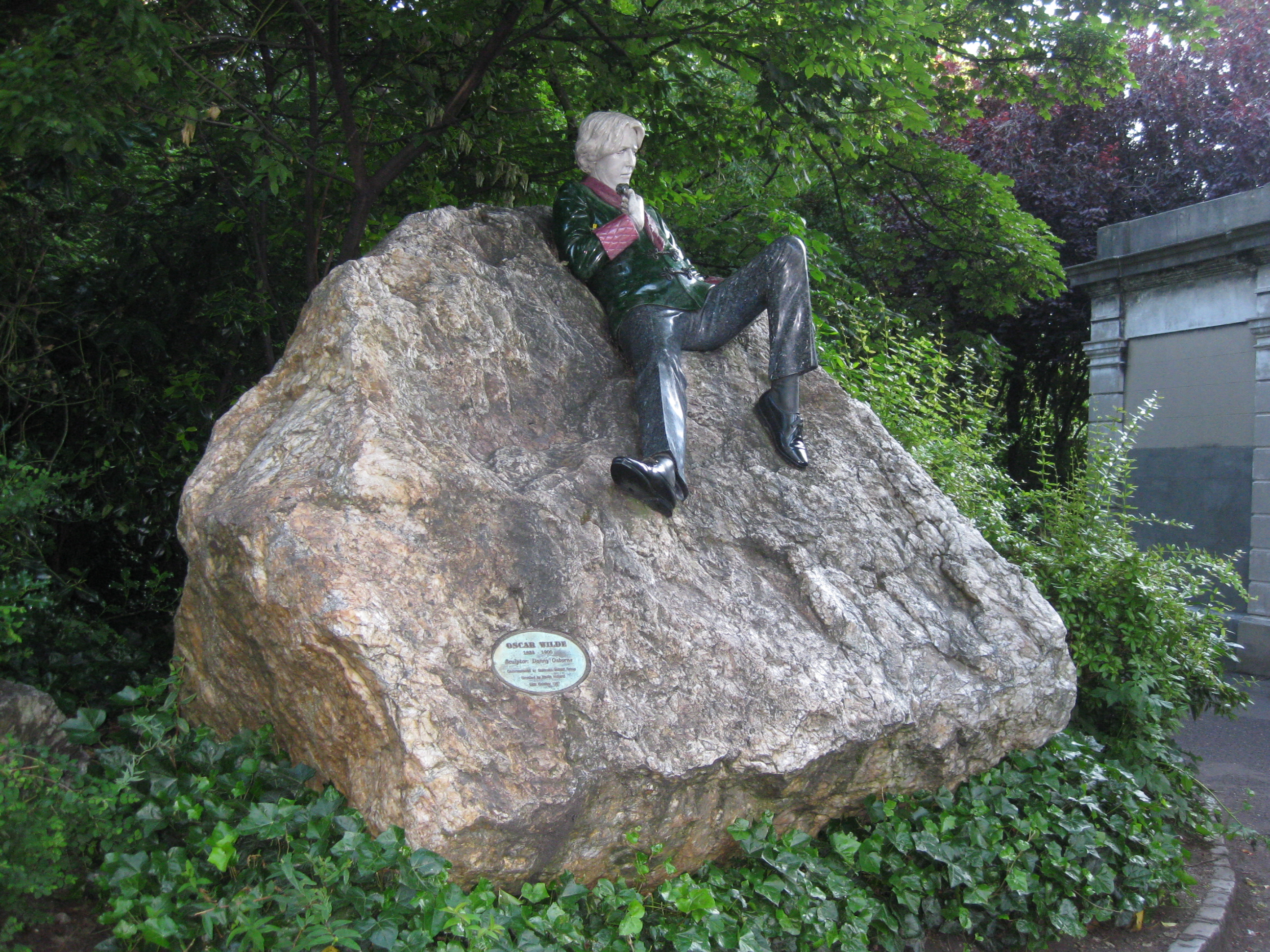 Oscar Wilde memorial, Dublin, Ireland.